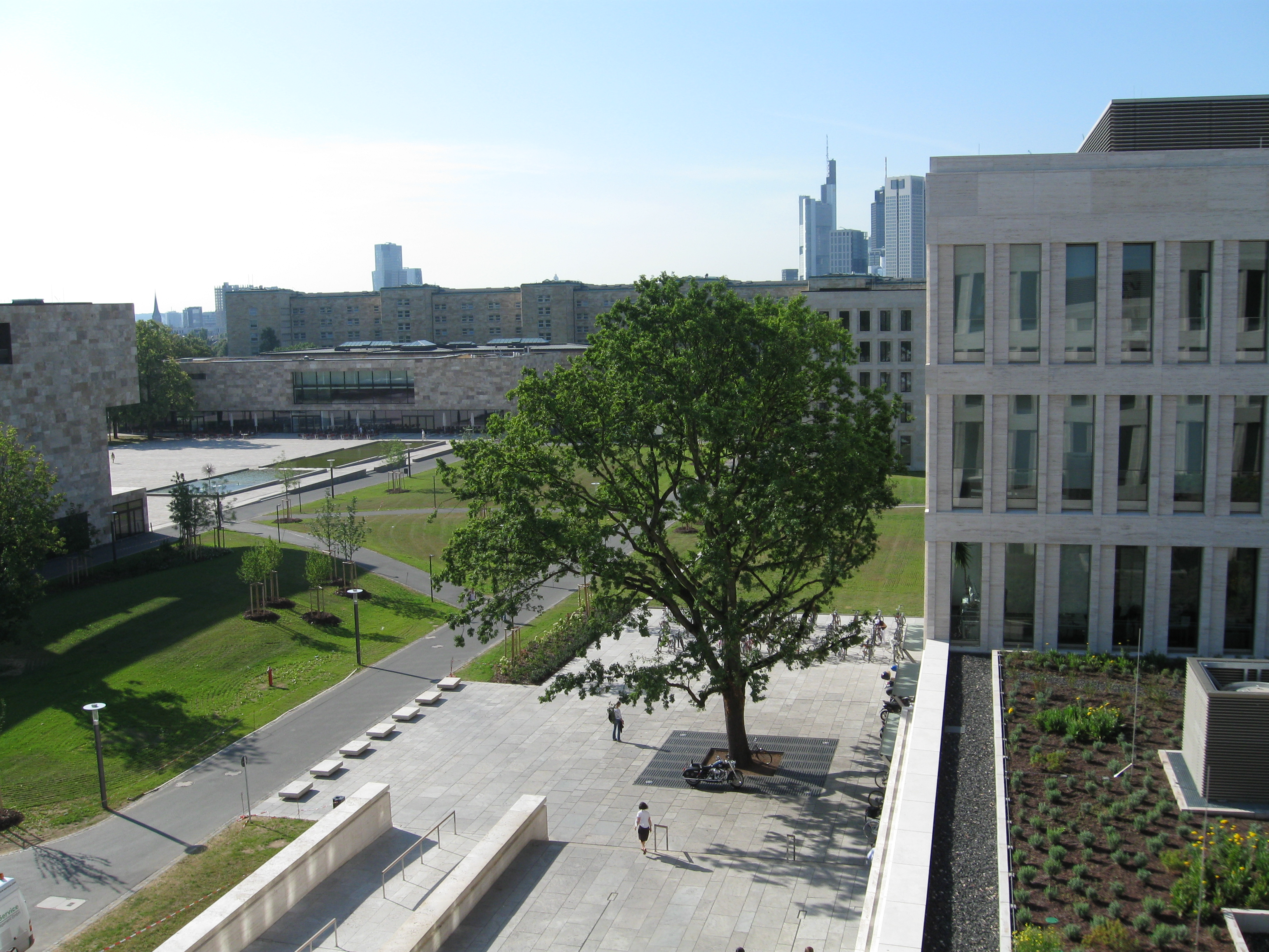 New Campus Westend, Frankfurt, Germany, Goethe-University